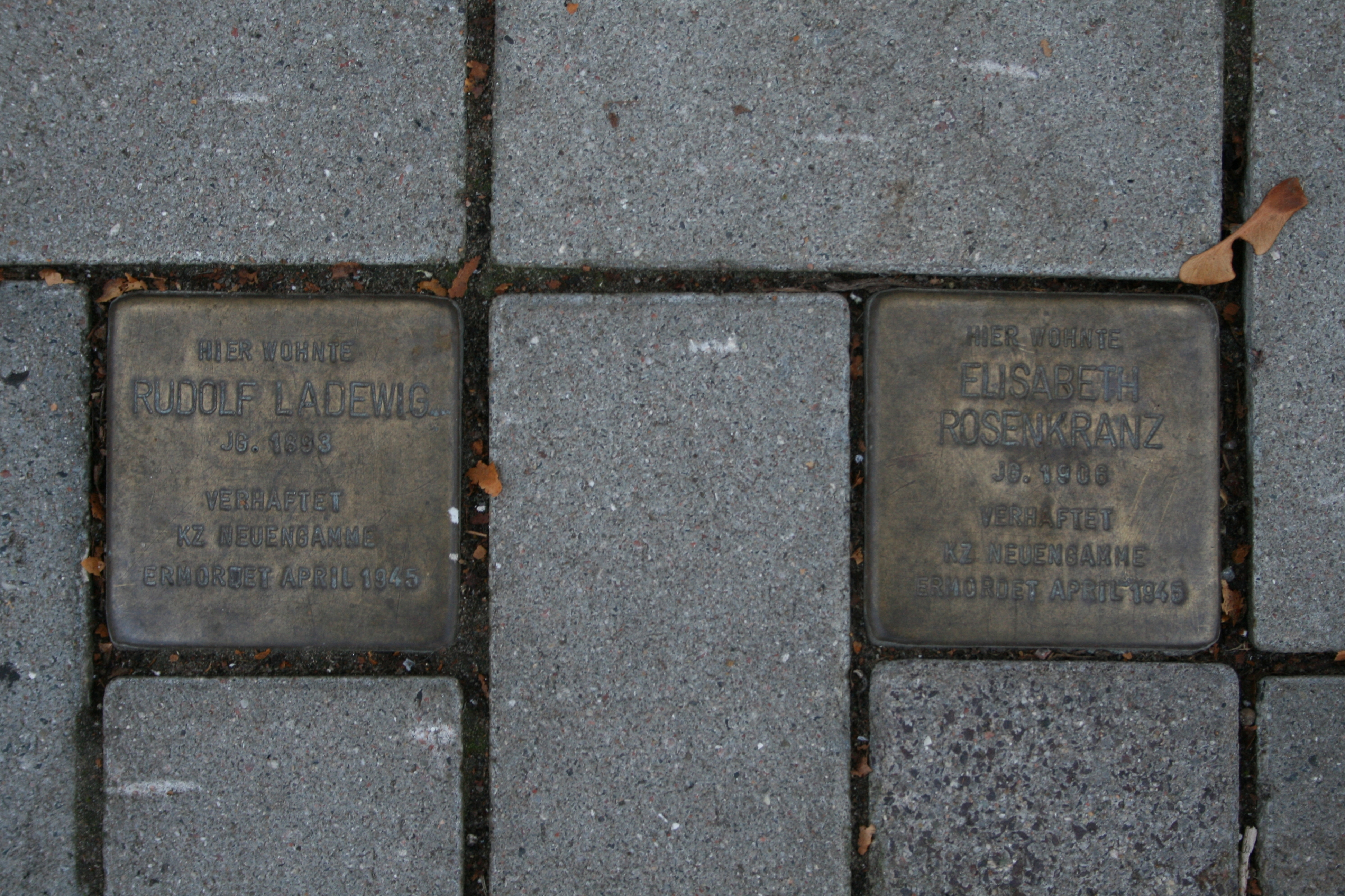 Stolperstein for the members of Resistance Rudolf Ladewig sr. and Elisabeth Rosenkranz in the Armgartstraße in front of house 2